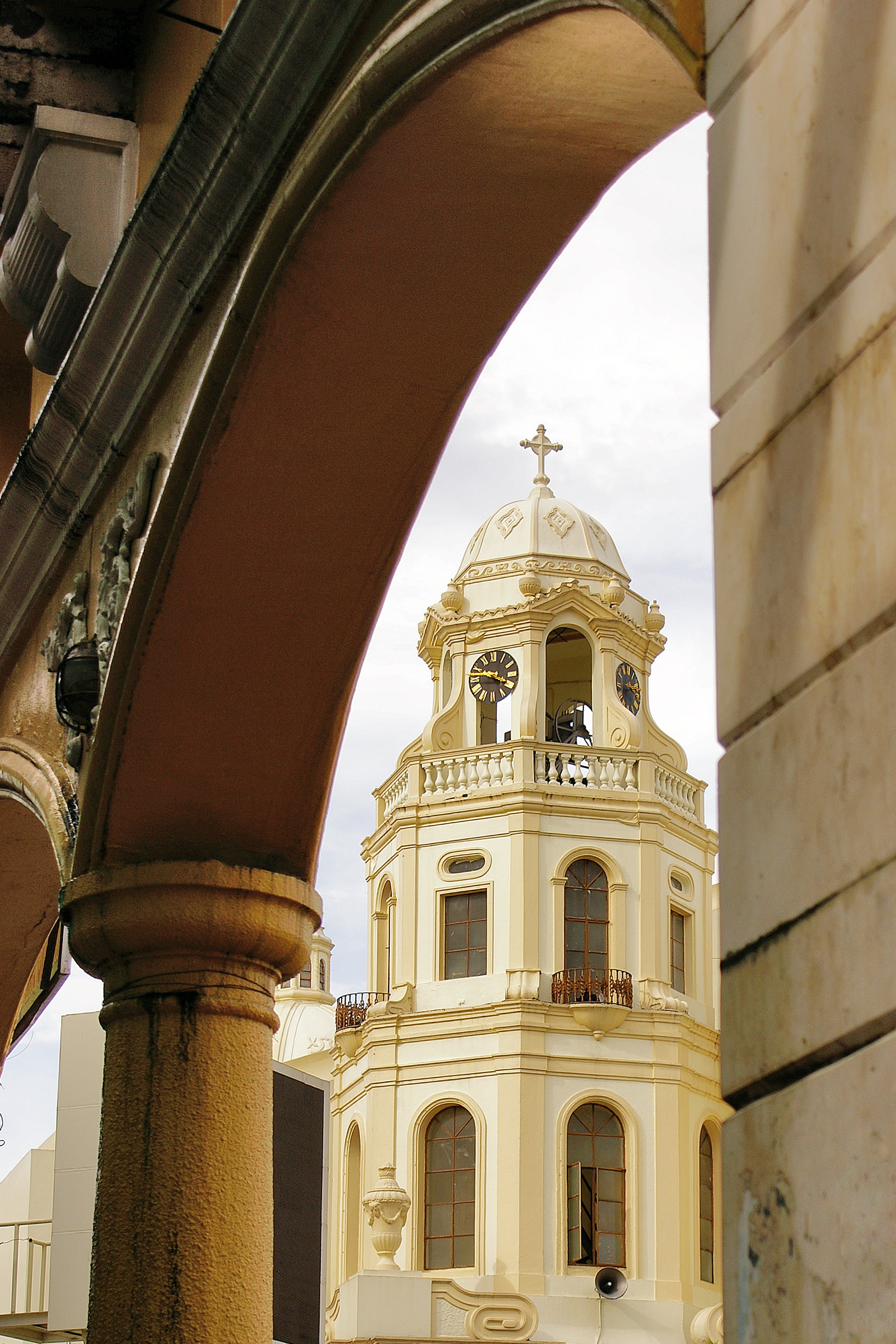 Bell tower of the Quiapo Church in Manila.Filipino: Kampanaryo ng Simbahan ng Quiapo sa Maynila.